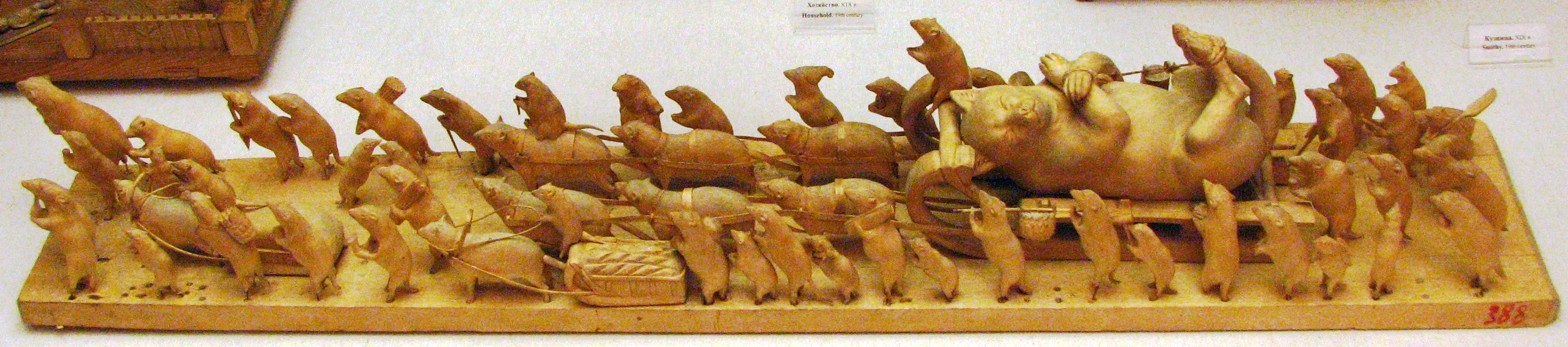 Russian Museum, a collection of folk art. Mice burying a Cat (late XIX - early XX century). Woodcarving. Master F.D. Eroshkin (1879-1936). Bogorodskoe, Vladimir Governorate